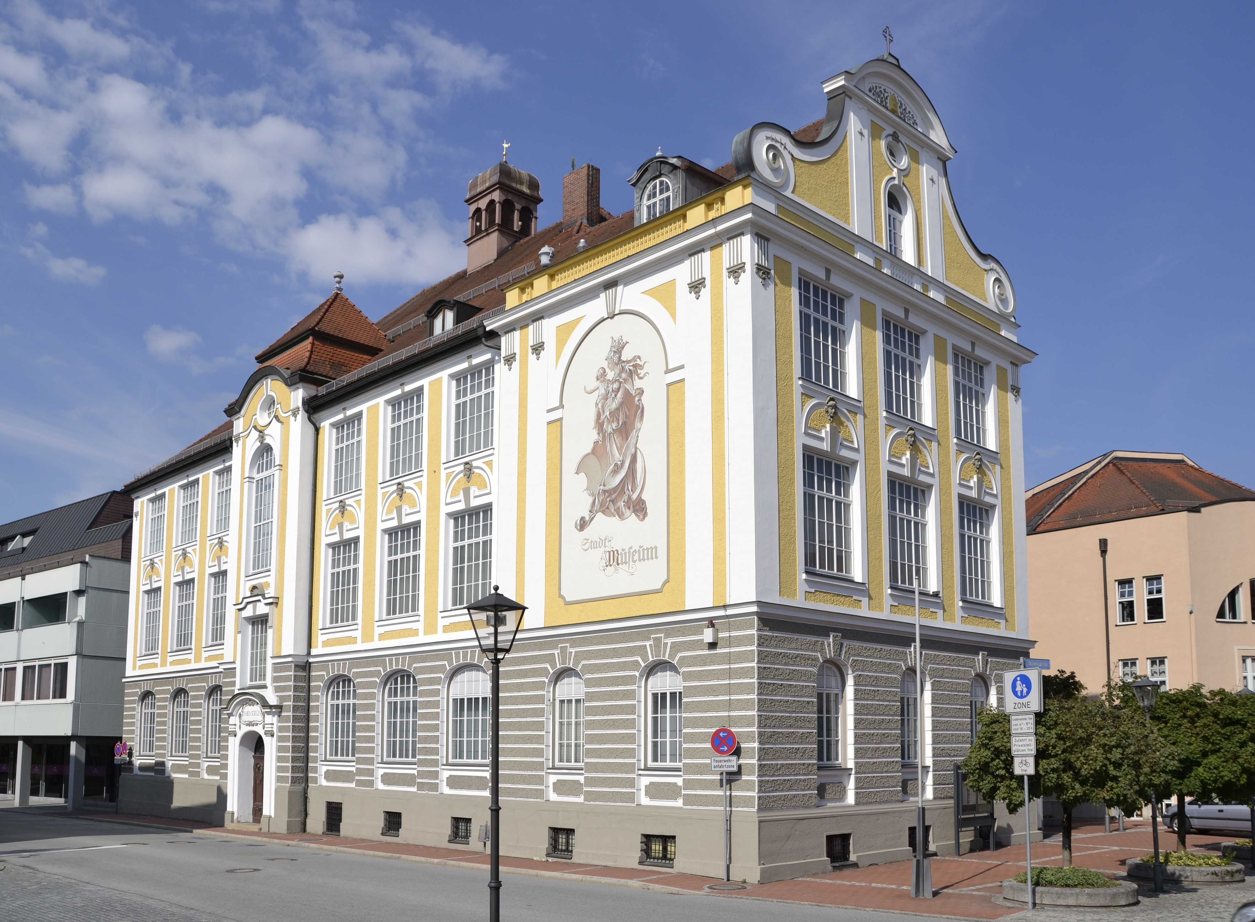 The Municipal Museum of Deggendorf, Bavaria.